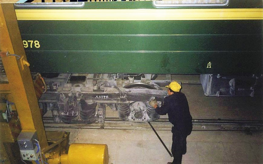 Changing bogies of the Trans-Mongolian railway at the Mongolia-China border. SteveRwanda 11:42, 22 February 2006 (UTC)